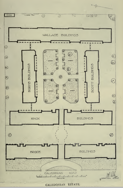 Image from the Report of the Housing for the Working Classes Committee, London County Council. 1912-1913. William Edward Riley signature appears on the drawings, and he signed off all the building depicted. (1913) Housing of the working classes in London. Notes on the action taken between the years 1855 and 1912 for the better housing of the working classes in London, with special reference to the action taken by the London County Council between the years 1889 and 1912 (Odhams, Digitised by Google ed.), London: London County Council Retrieved on 8 June 2016.